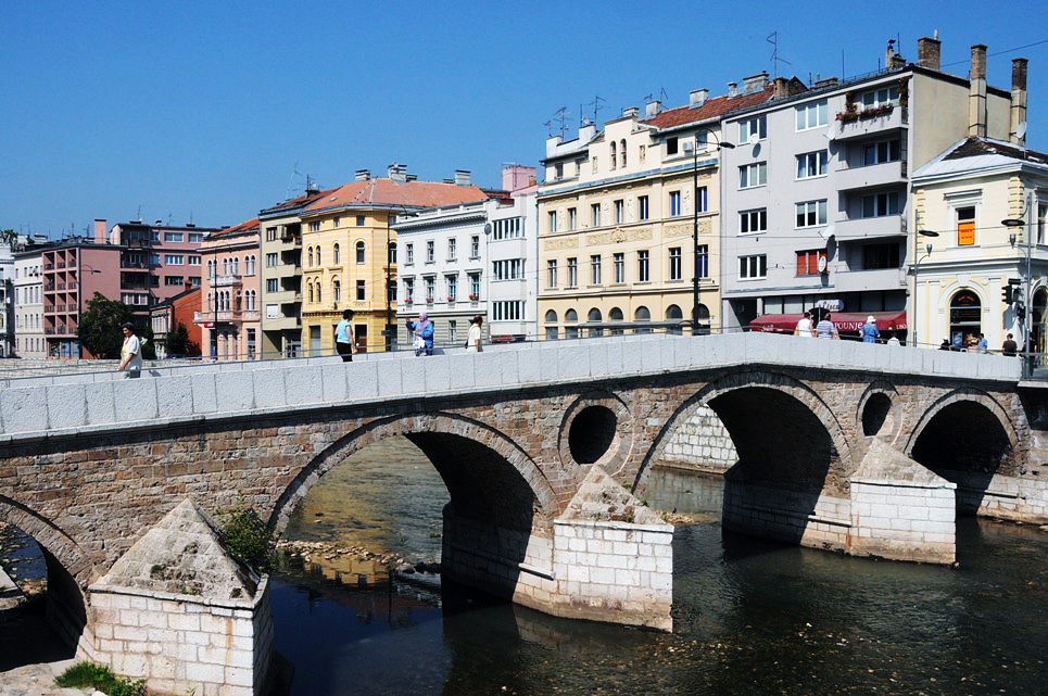 Latin (Princip) Bridge on Miljacka River